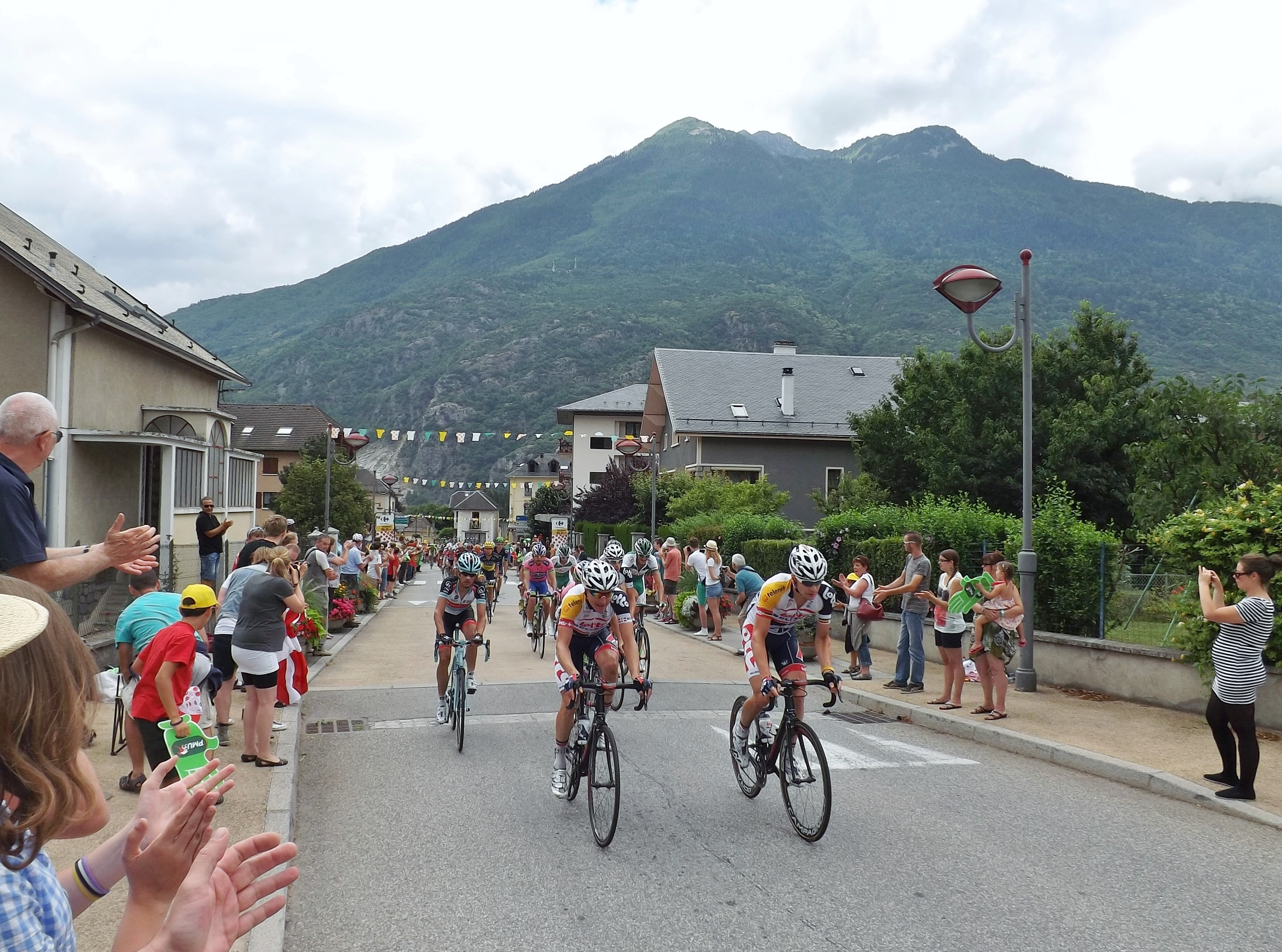 Sight of a group of 30-40 riders heading the Tour de France 2013 in the city of La Chambre in Savoie.